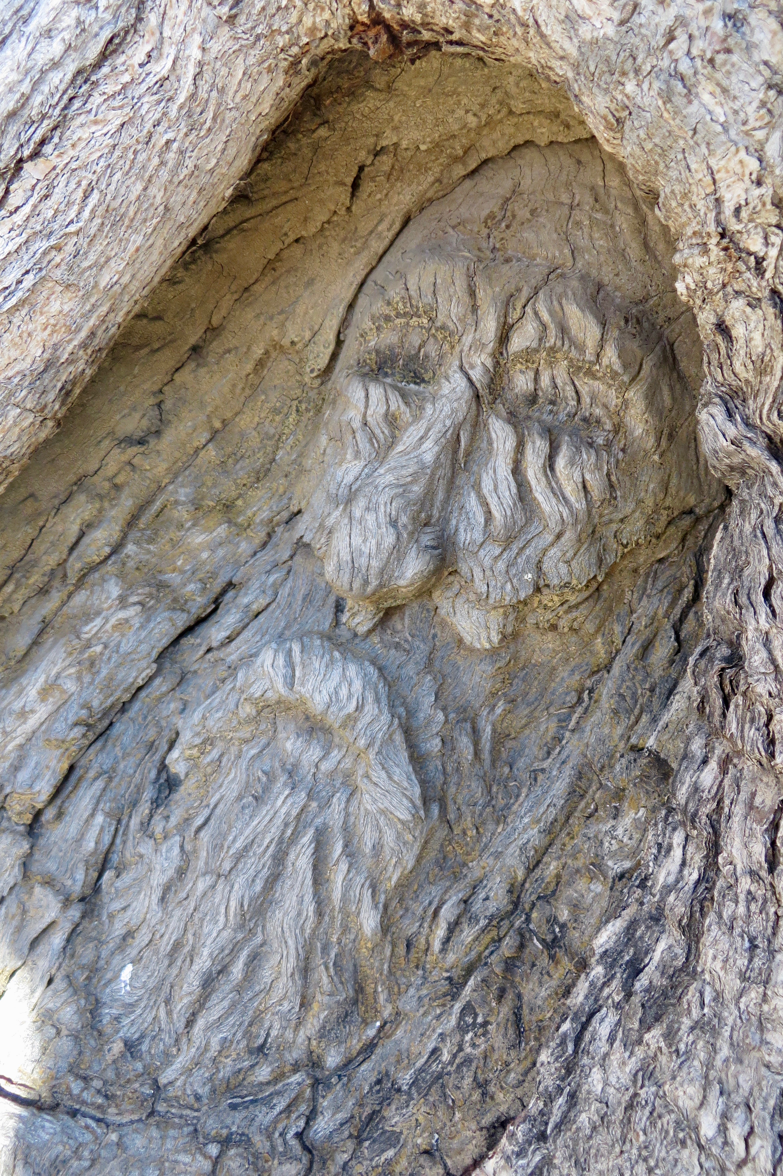 The Face Tree, at the Burke, Wills, King and Yandruwandha National Heritage Place, a South Australian Historical heritage site.